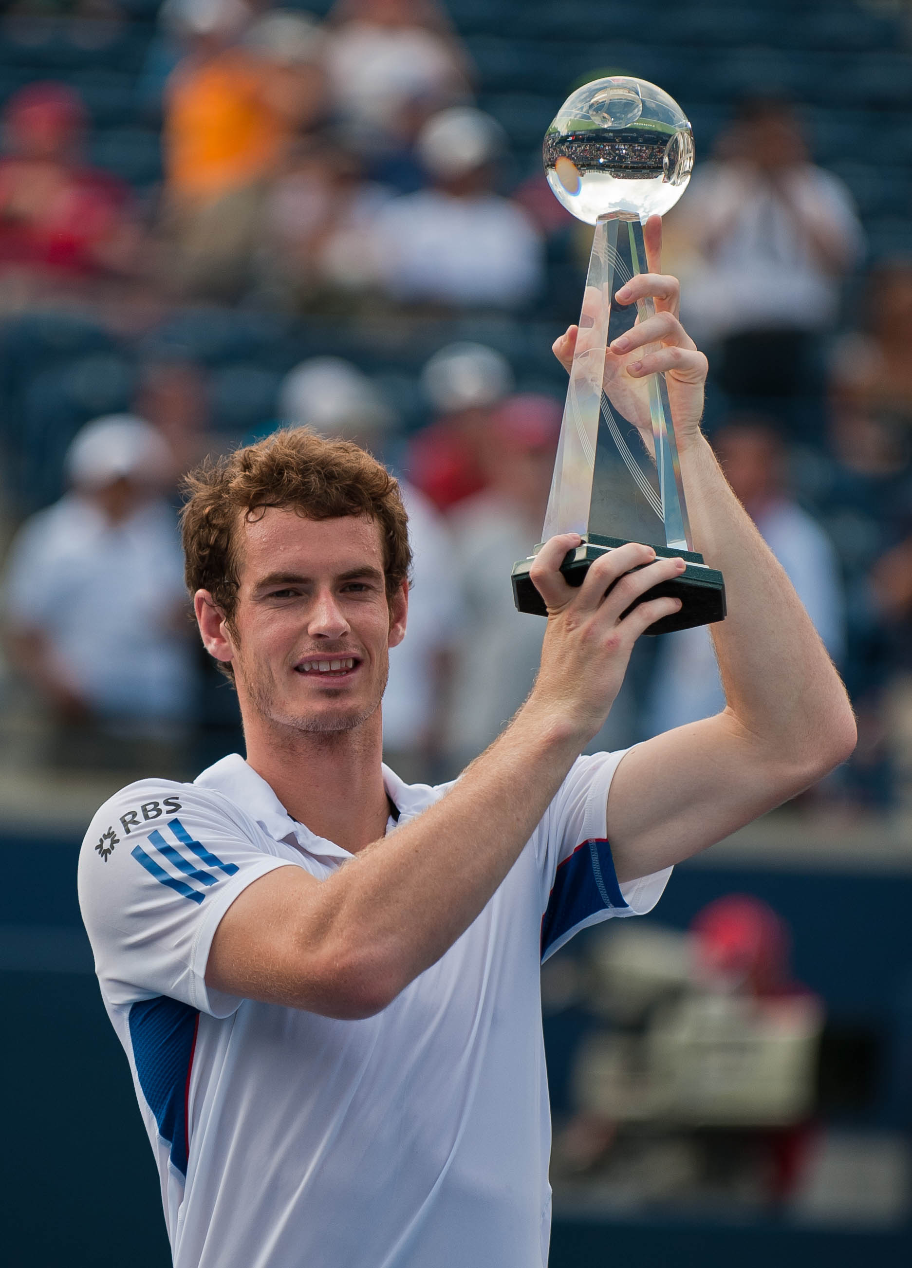 Andy Murray holding aloft the Rogers Cup trophy in Toronto.